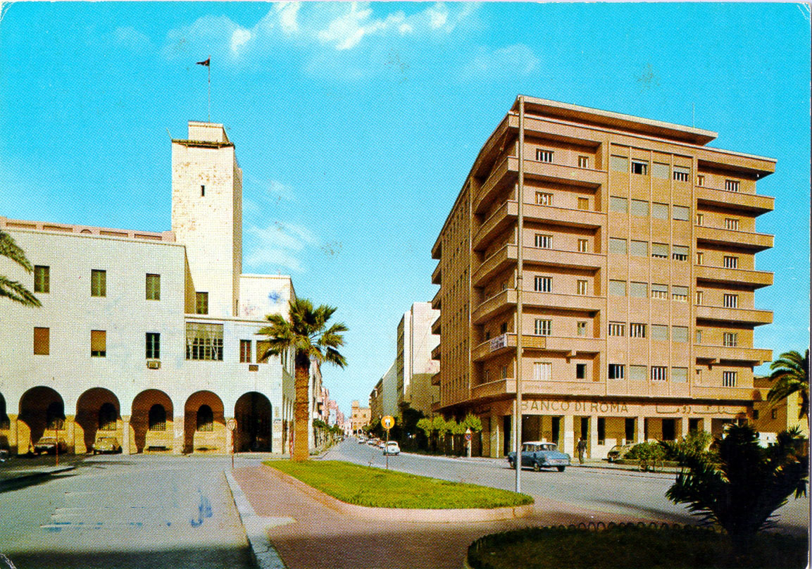 1960s Omar El Moktar st. in Benghazi and the branch of Banco di Roma in downtown Benghazi.